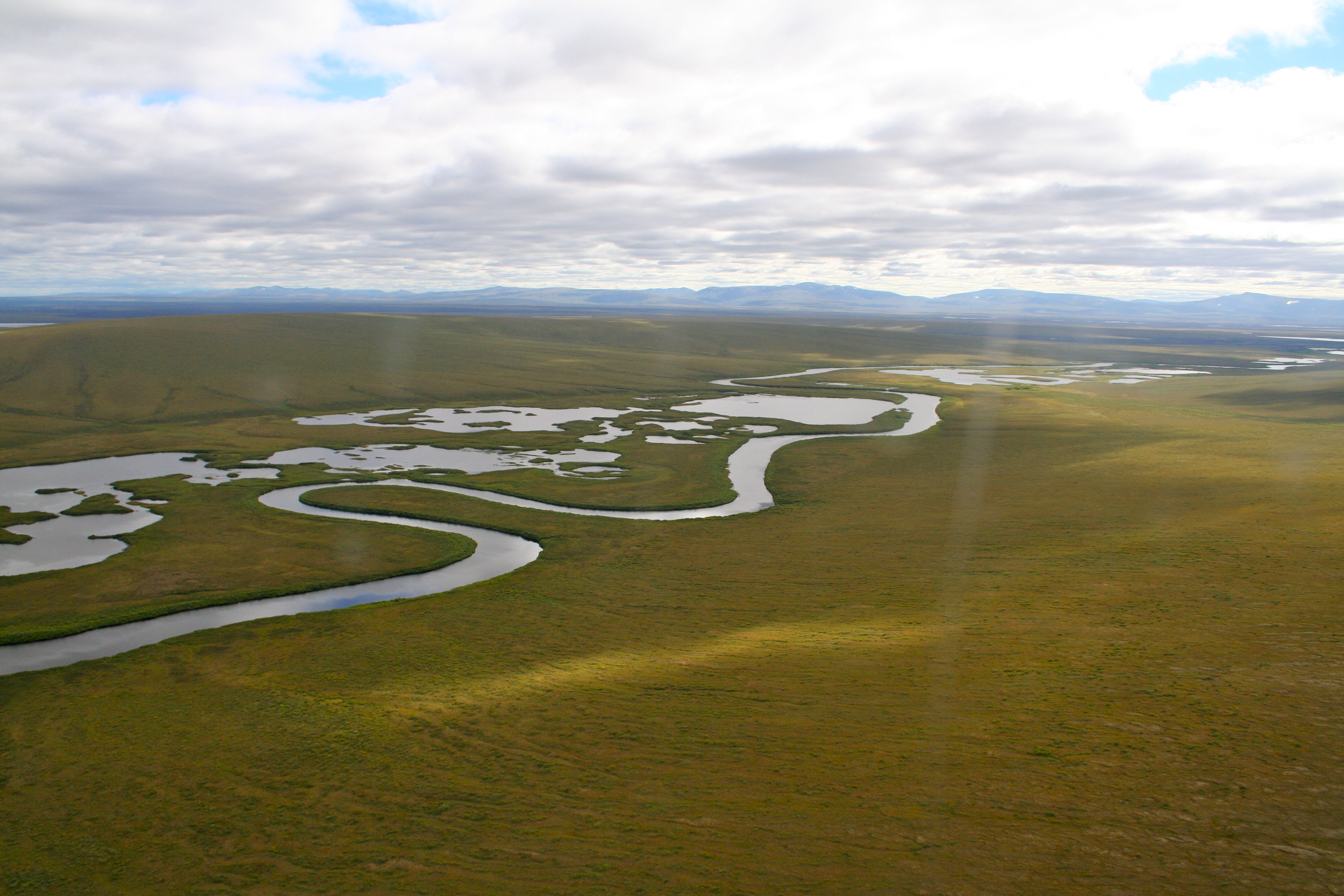 Miles of meandering rivers and shallow ponds dot the landscape of Bering Land Bridge National Preserve